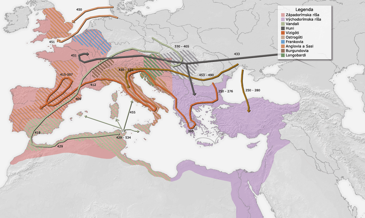 slovak version of the picture